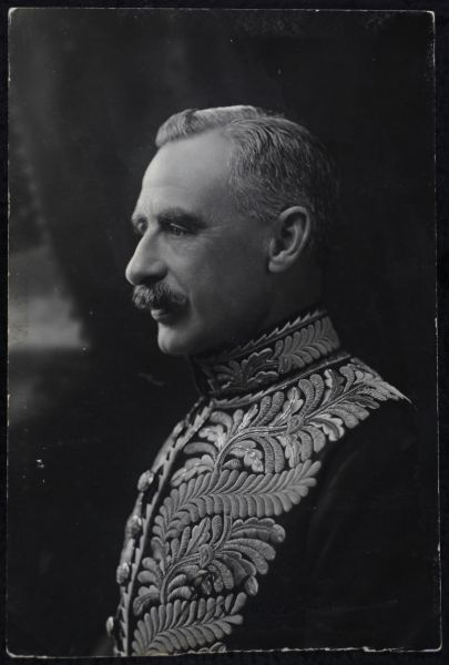 Richard Stuart Lake in Windsor uniform, head and shoulders.